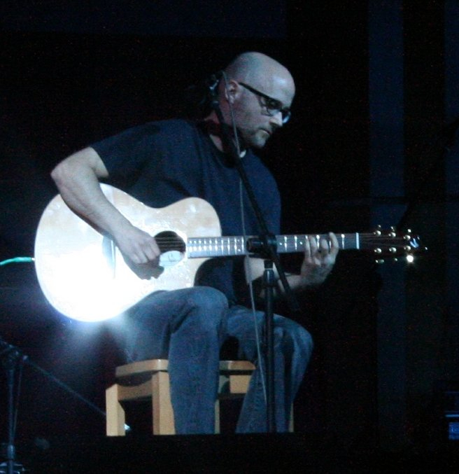 Moby performing at the David Lynch Weekend, Maharishi University of Management in Fairfield, Iowa, Saturday evening, April 26, 08